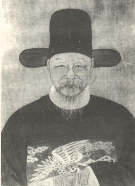 Gu Xiancheng